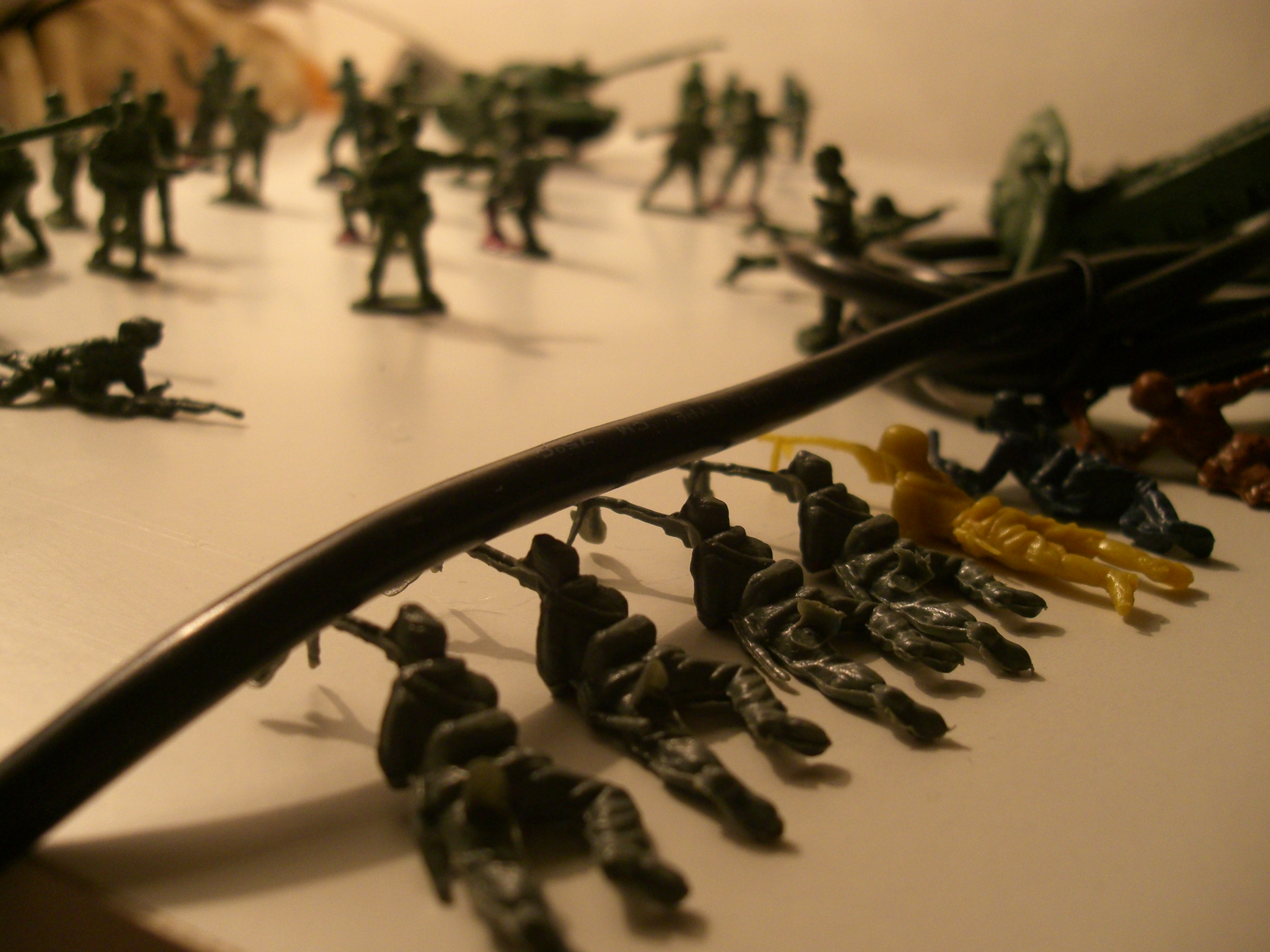 Plastic soldiers - battlefield. Left site is US Army ready for attack, right part is Wermacht.